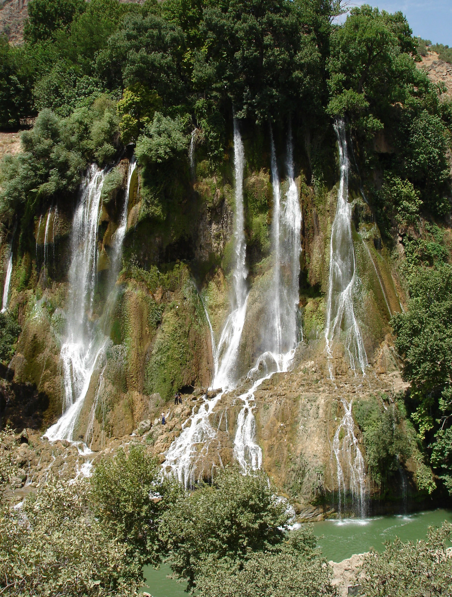 Bisheh waterfall in Lorestan province of Iran.